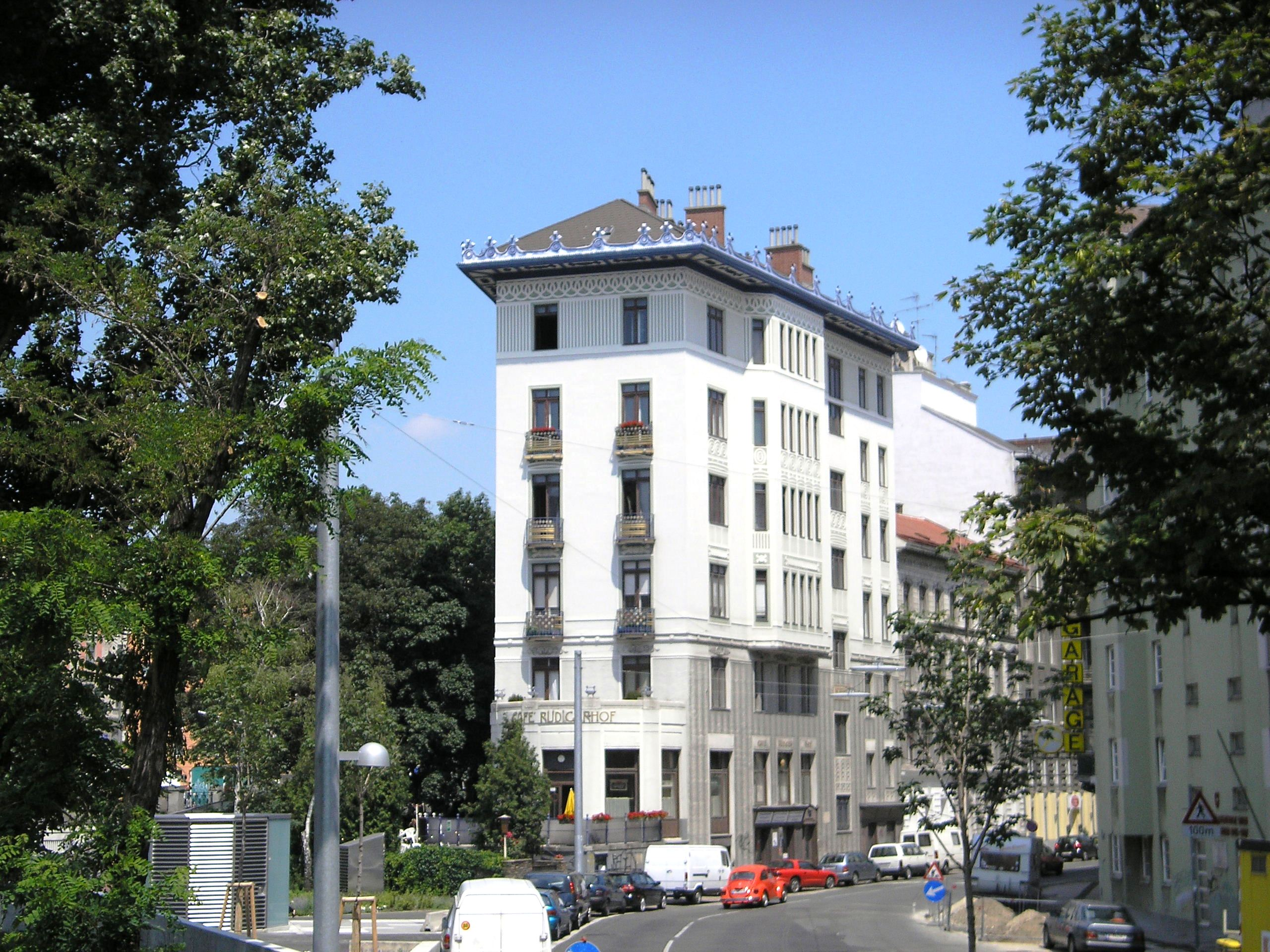 Image of the Rüdigerhof (or also Rüdiger-Hof) on the Rechte Wienzeile in Vienna. Constructed by Oskar Marmorek, a student of Otto Wagner, in 1902 in the Vienna Jugendstil.